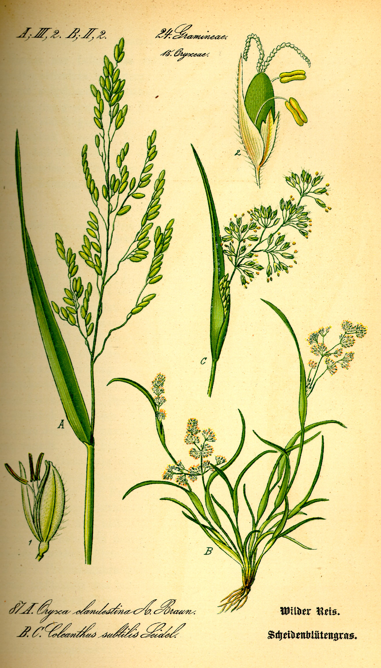 A. Oryza clandestina = Leersia oryzoides B., C. Coleanthus subtilis (de: Scheidengras, en: moss-grass)